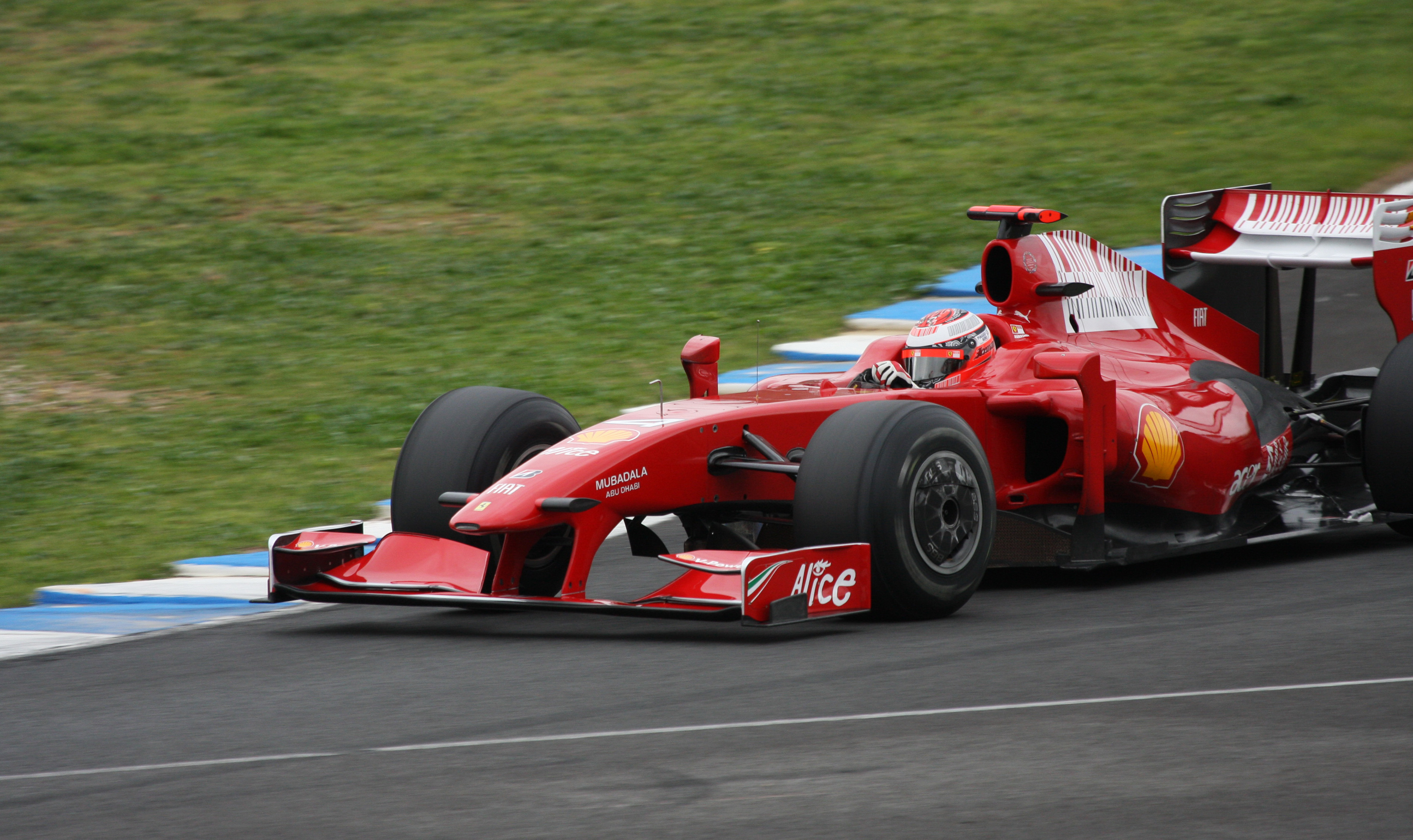 Kimi Raikkonen in the Ferrari F60, F1 testing session, Jerez 04_Mar_2009